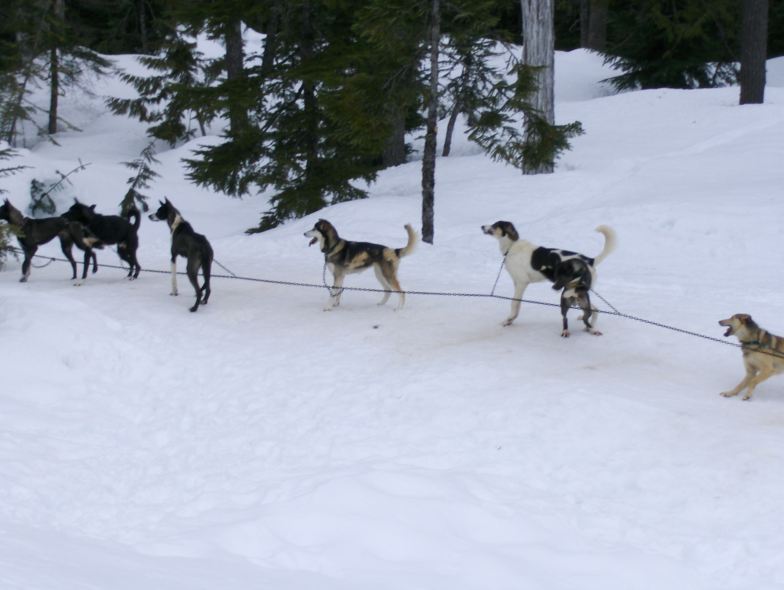 Sled dogs at Whistler Blackcomb, British Columbia, Canada.